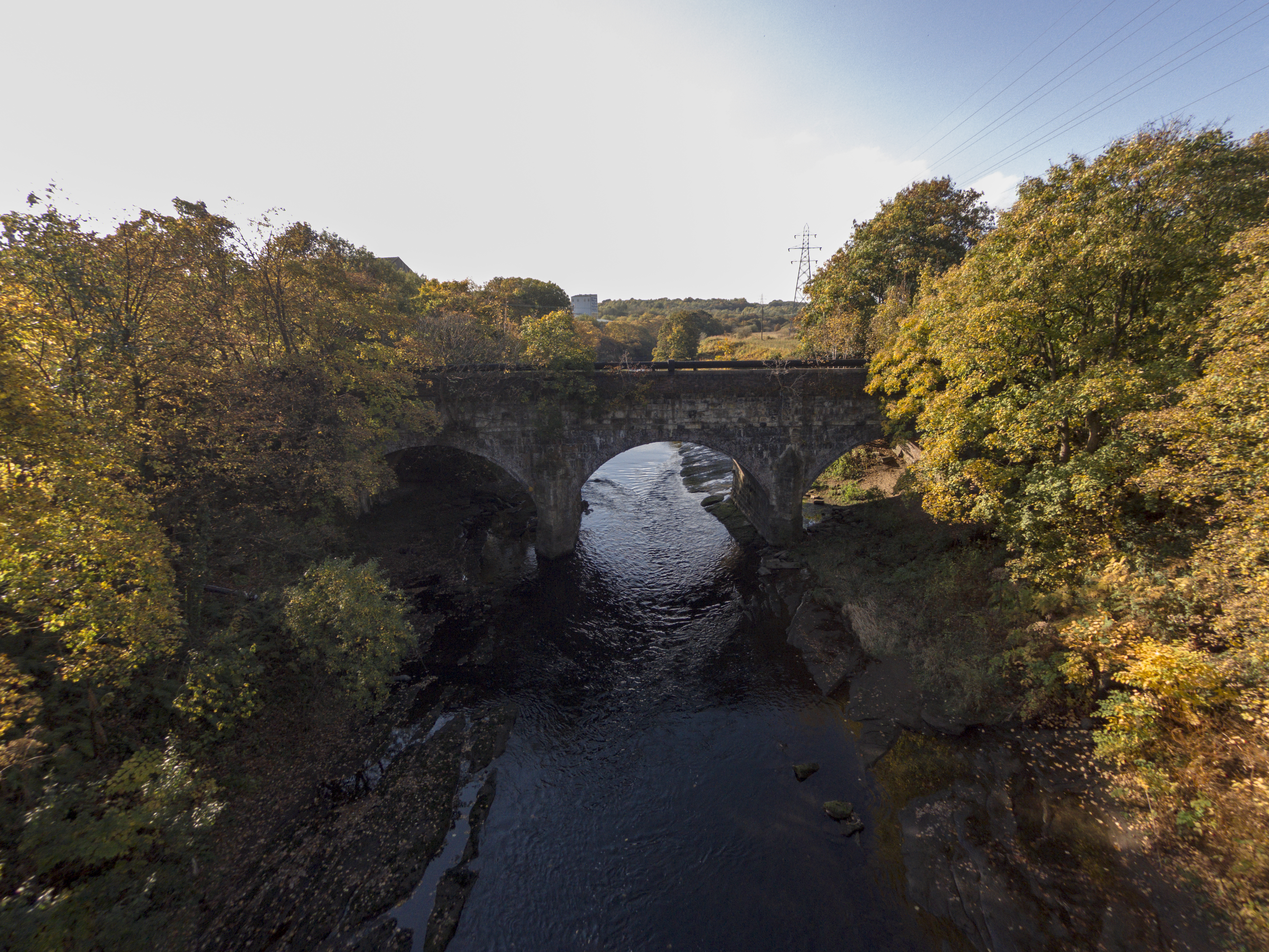 aerial image